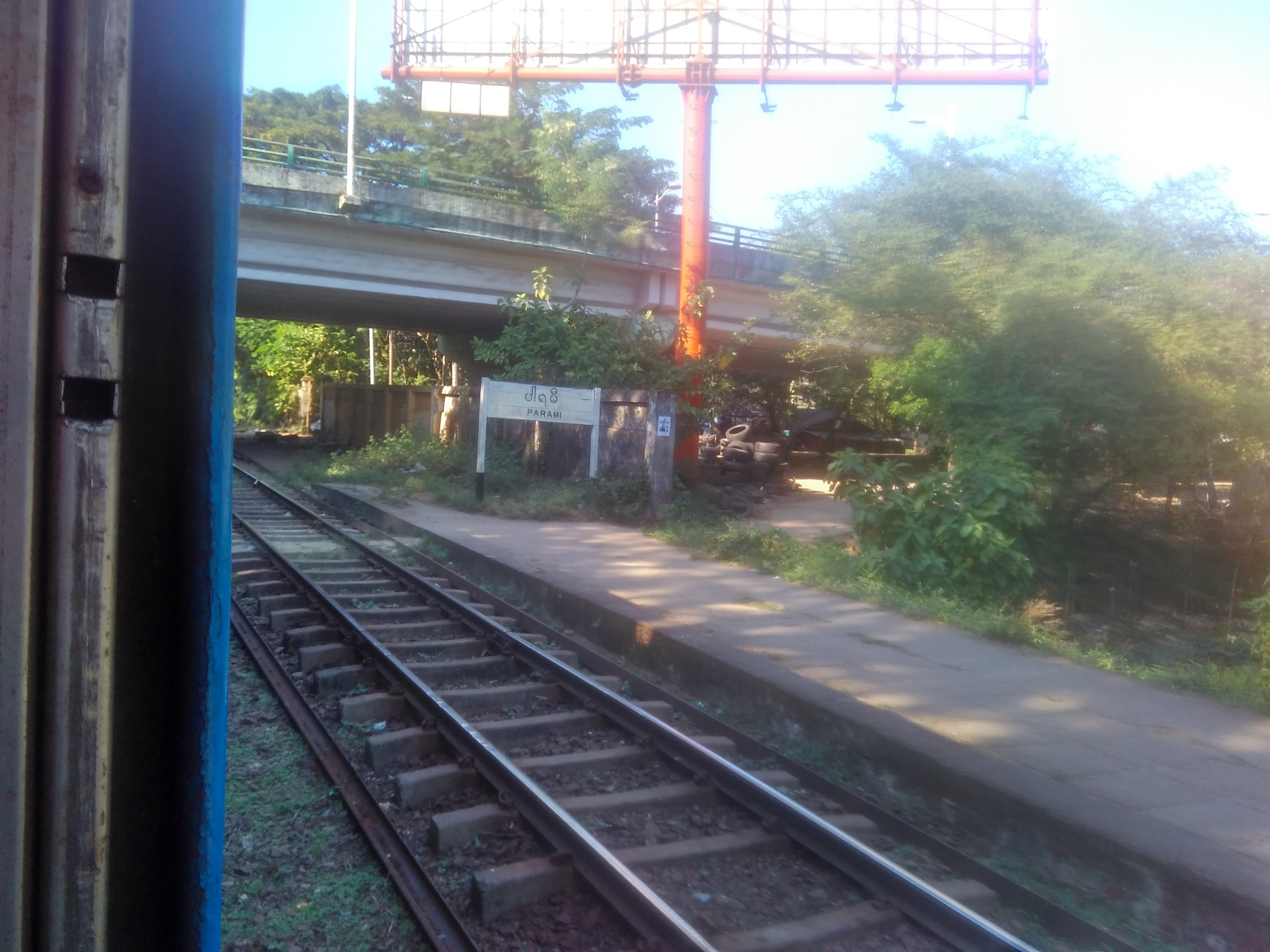 Parami Station, Yangon, Myanmar